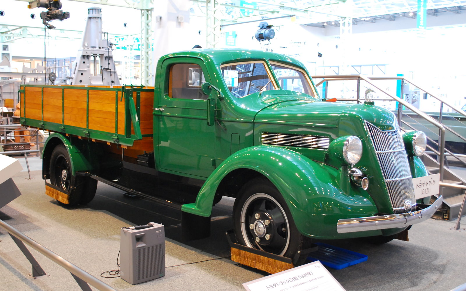 Toyoda_Model_G1_Truck (Replica)